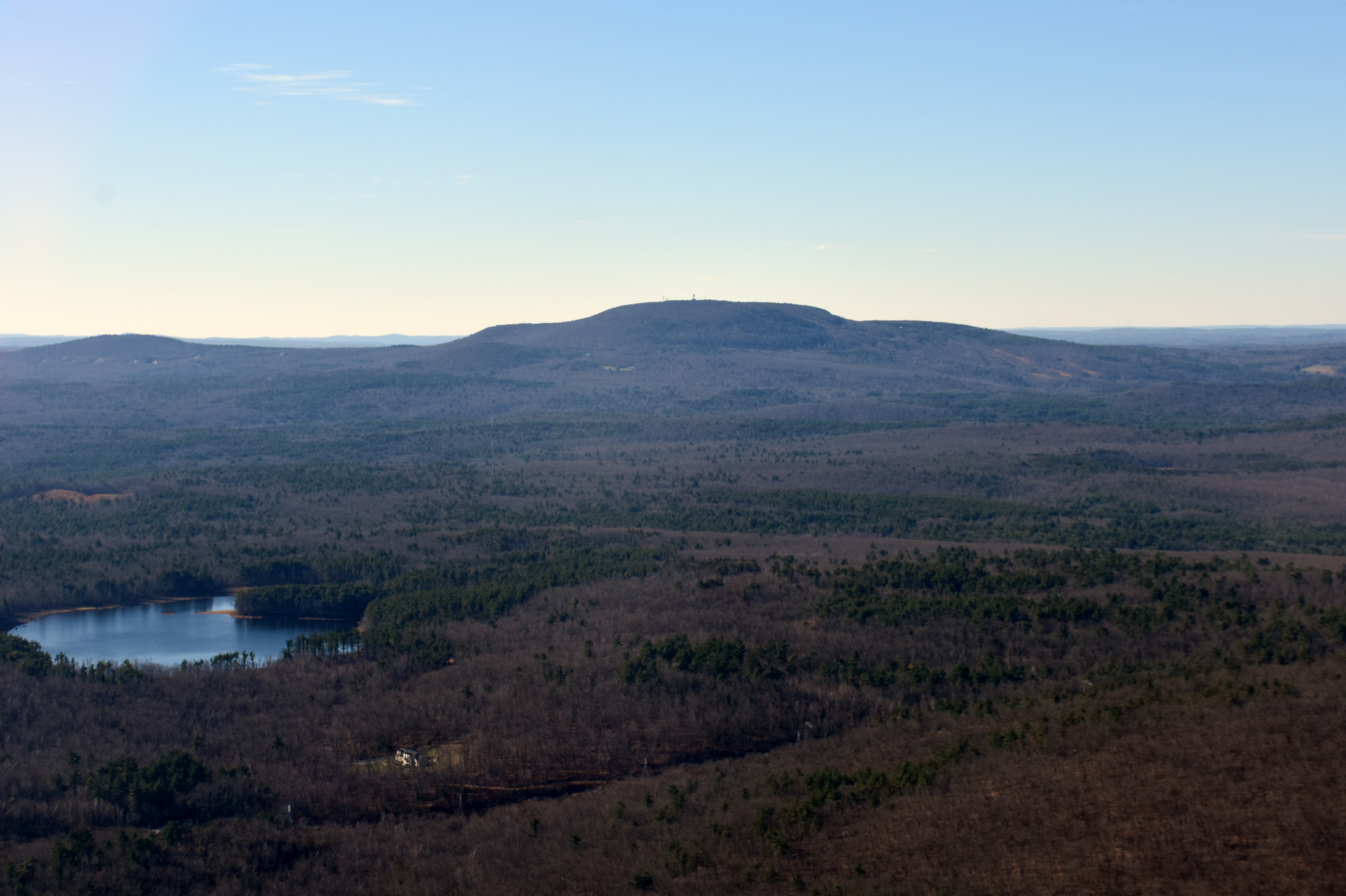 Aerial view of Mount Wachusett in Worcester County, Massachusetts